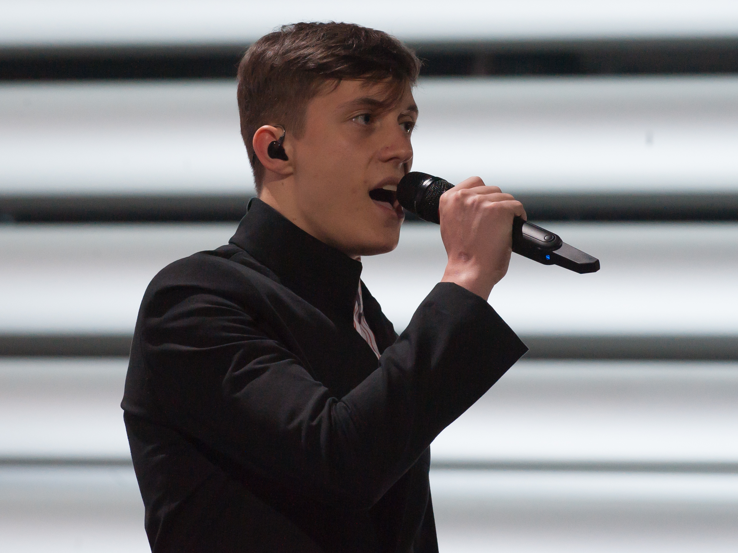 Eurovision Song Contest Vienna 2015: Loïc Nottet